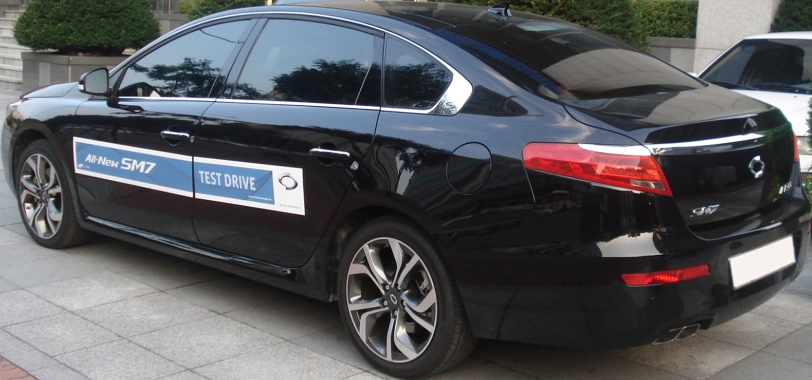 Renault Samsung All New SM7